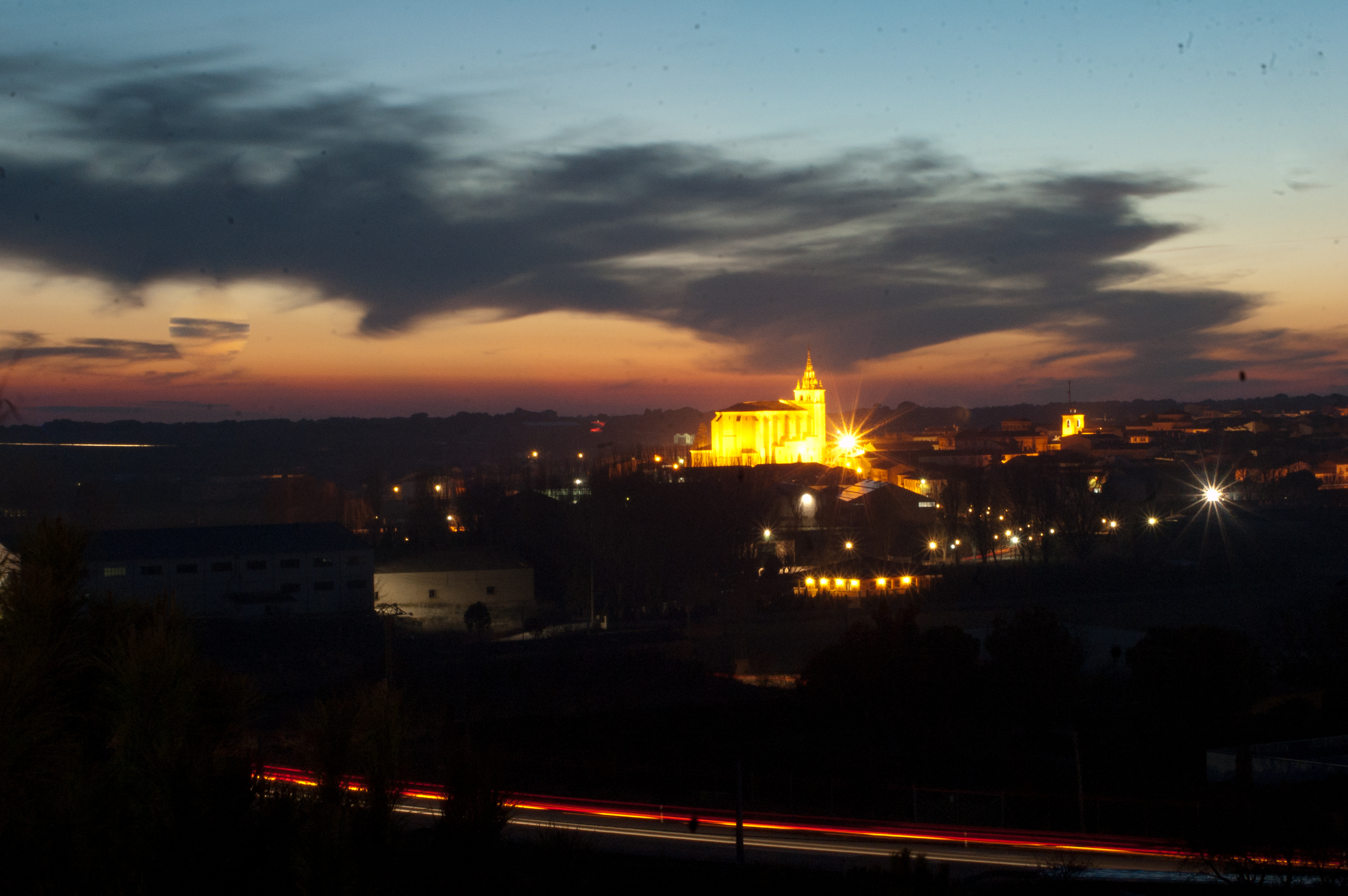 Night picture of Villanueva de la Jara, Castille.